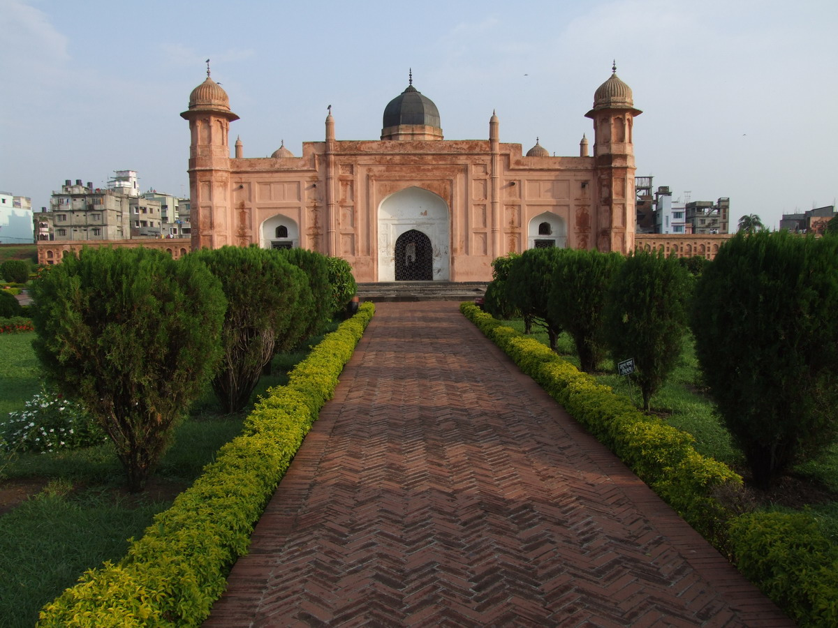 Lalbagh Fort (লালবাগ কেল্লা), right in the middle of Dhaka, Bangladesh, was established in the 17th century by the Mughal Subehdar (সুবেদার = governor) Shayesta Khan (শায়েস্তা খাঁ) by the banks of the Buriganga (বুড়িগঙ্গা) River. It was a bastion of Mughal soldiers to operate against frequent rebellions across Bengal. During the 1857 Sepoy Rebellion (সিপাহী বিদ্রোহ), the first Indian uprising against the British, Indian soldiers in this fort rebelled as well. It's now preserved well enough, and renovated to a large extent.